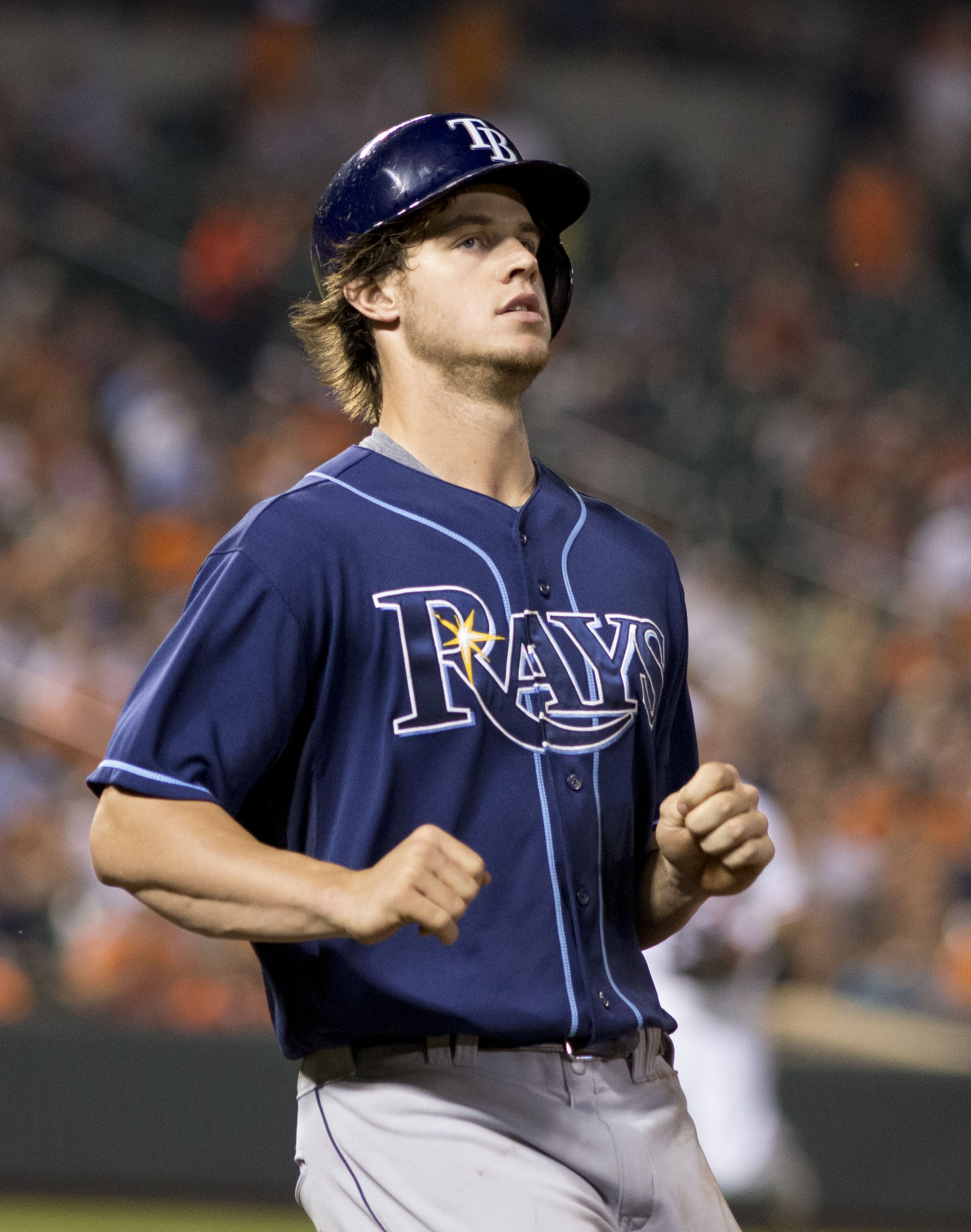 Wil Myers